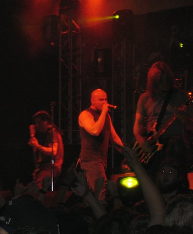 Disturbed playing live in 2005.